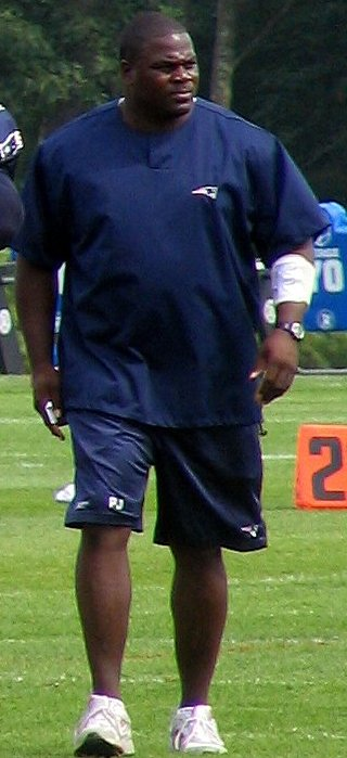 New England Patriots assissent coach and former NFL linebacker Pepper Johnson.